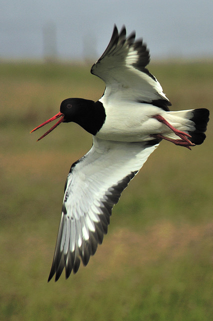 A Eurasian Oystercatcher flying on the island of Nólsoy, Faroe Islands, Kingdom of Denmark.